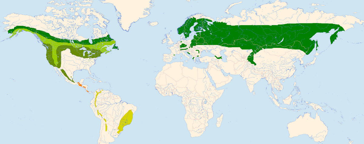 Forest Owls (Aegolius) World distribution